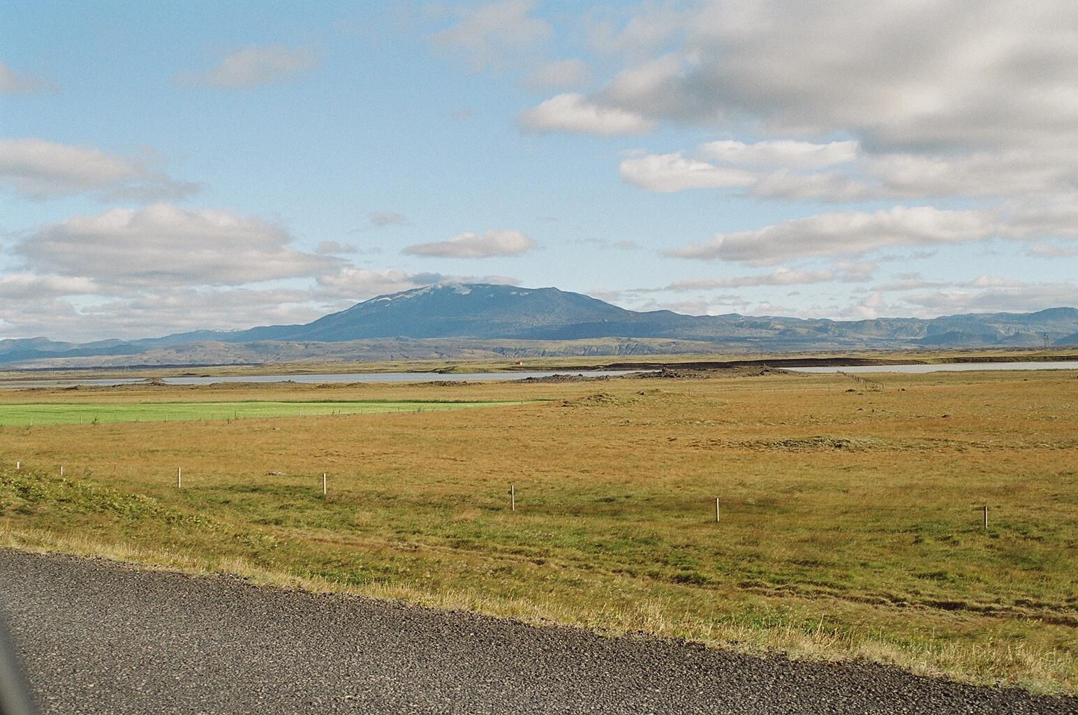 GNU FDL The photo shows mount Hekla in Iceland seen from the Þjórsárdalur. Picture taken by my-self in september 2004.